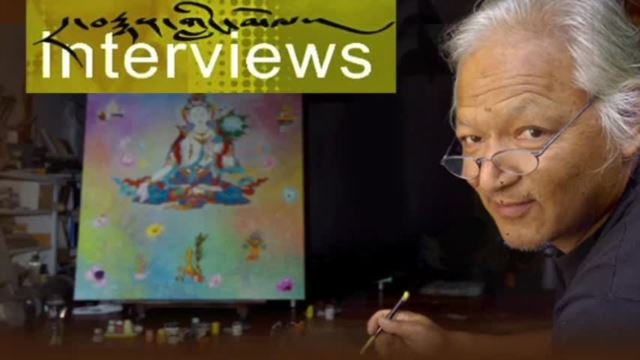 Karma Phuntsok, Contemporary Tibetan Artist